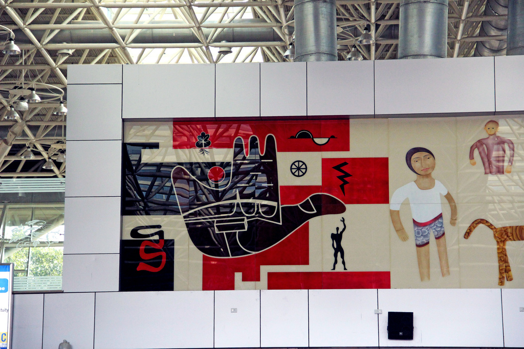 Chandigarh Airport - mural